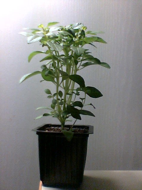 A young basil sprout. Photo taken by myself, 4/4/07. Licensed under GFDL.